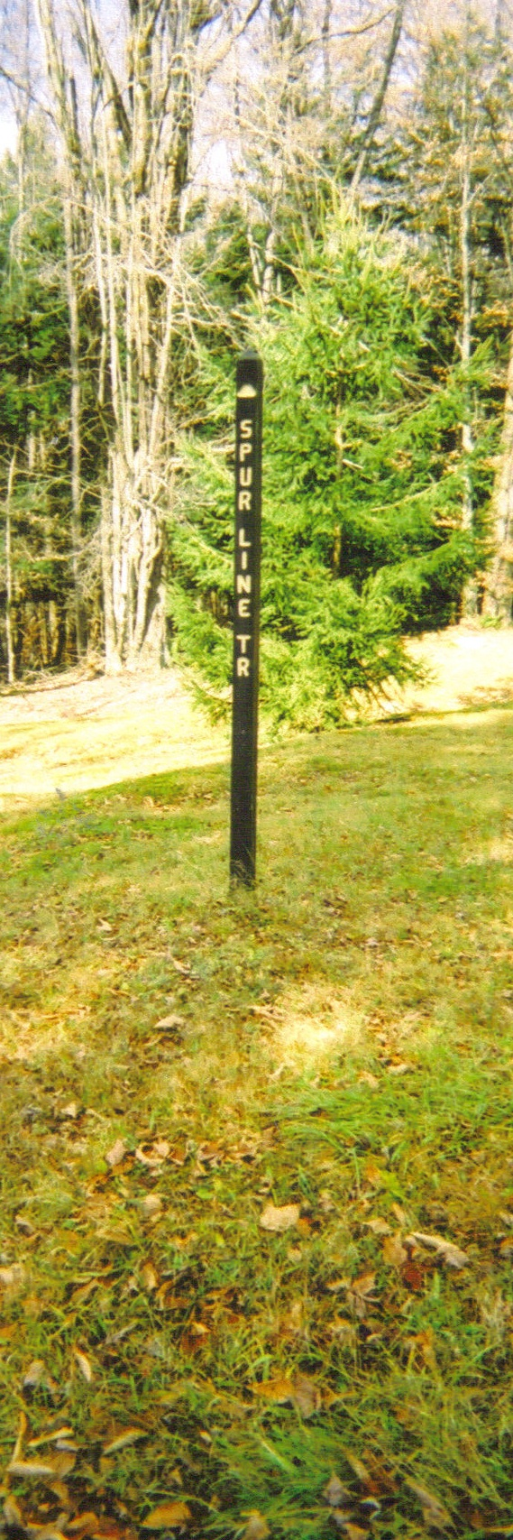 A trail marker for the Spur Line Trail at Lyman Run State Park.